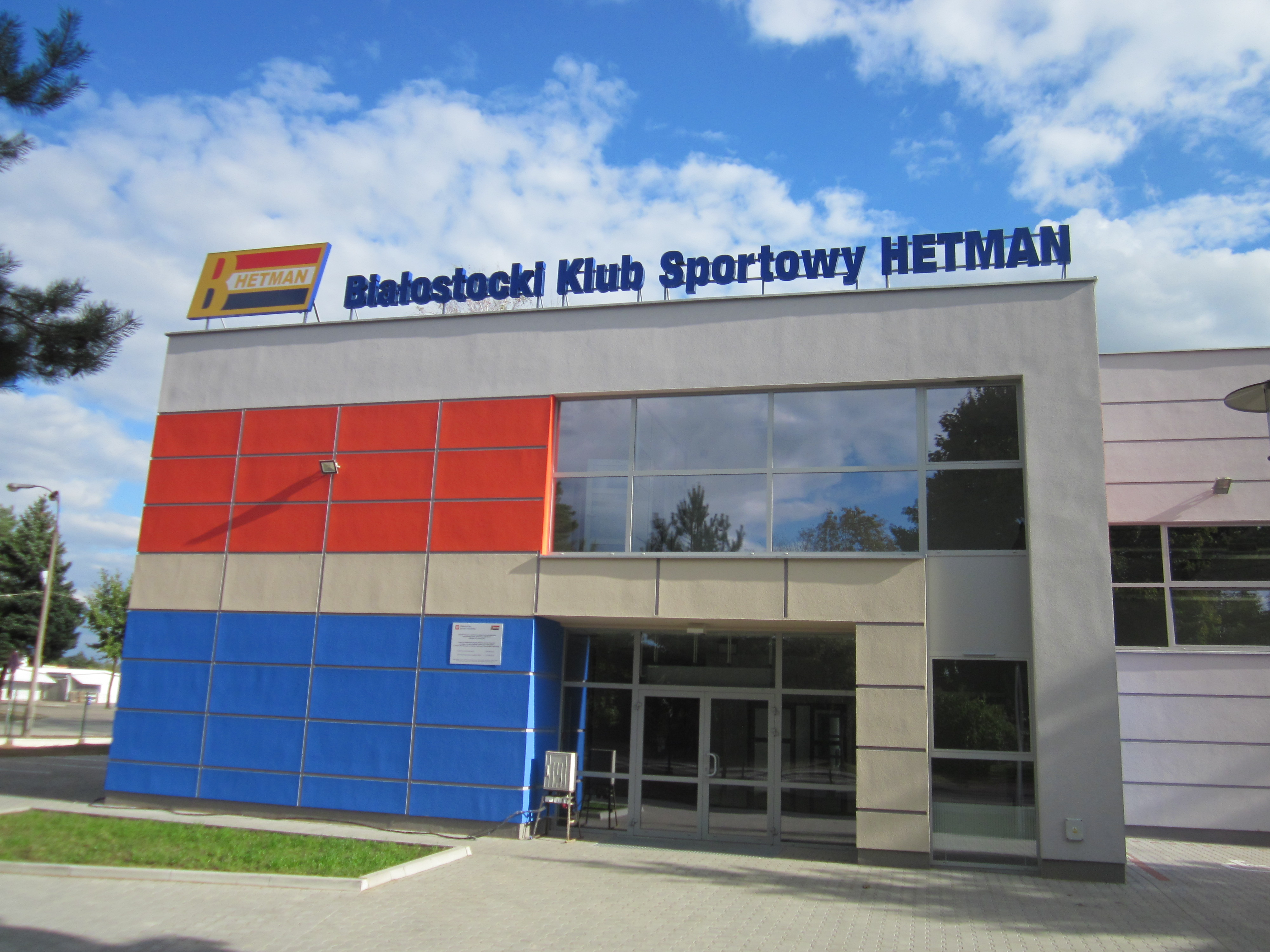 The club sports Hetman Białystok Street Kawaleryjska 17A